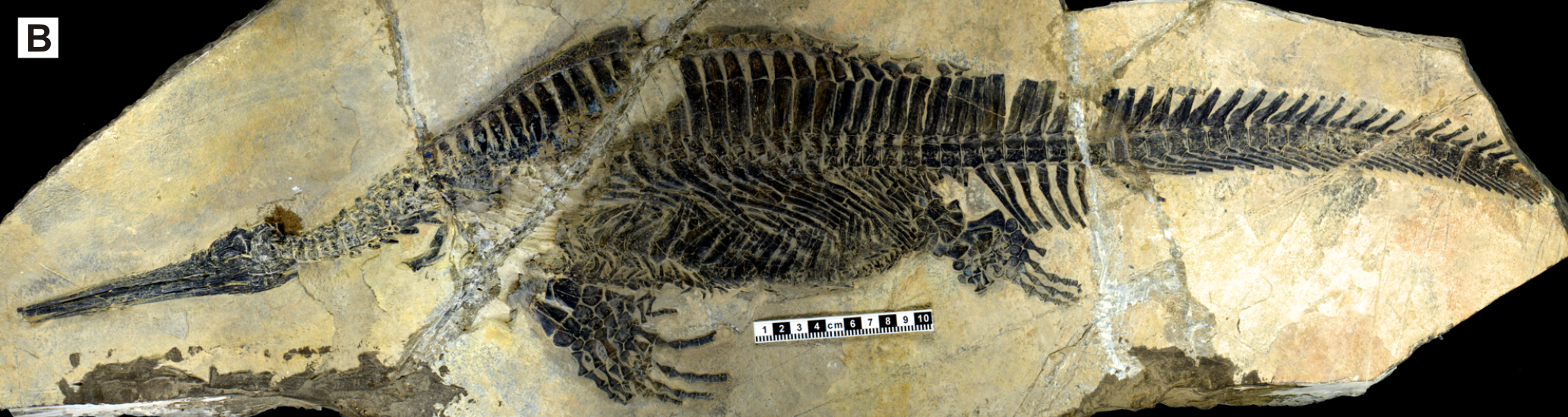 Specimen of Hupehsuchus nanchangensis (WGSC 26004). Scale is 10 cm long.